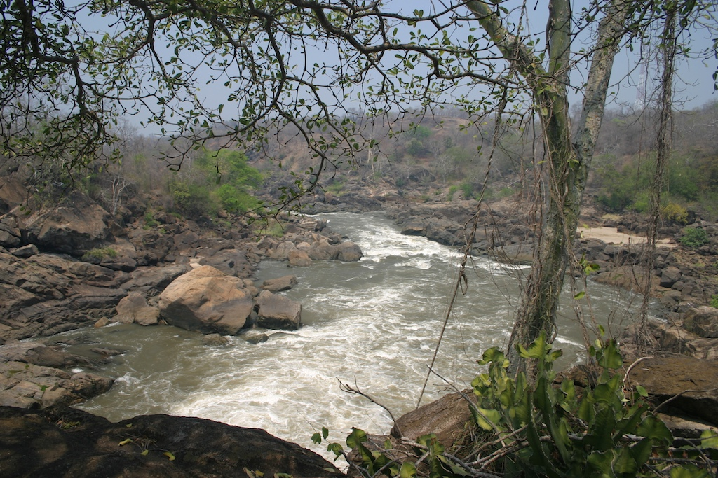 Kapichira Falls (Shire River)